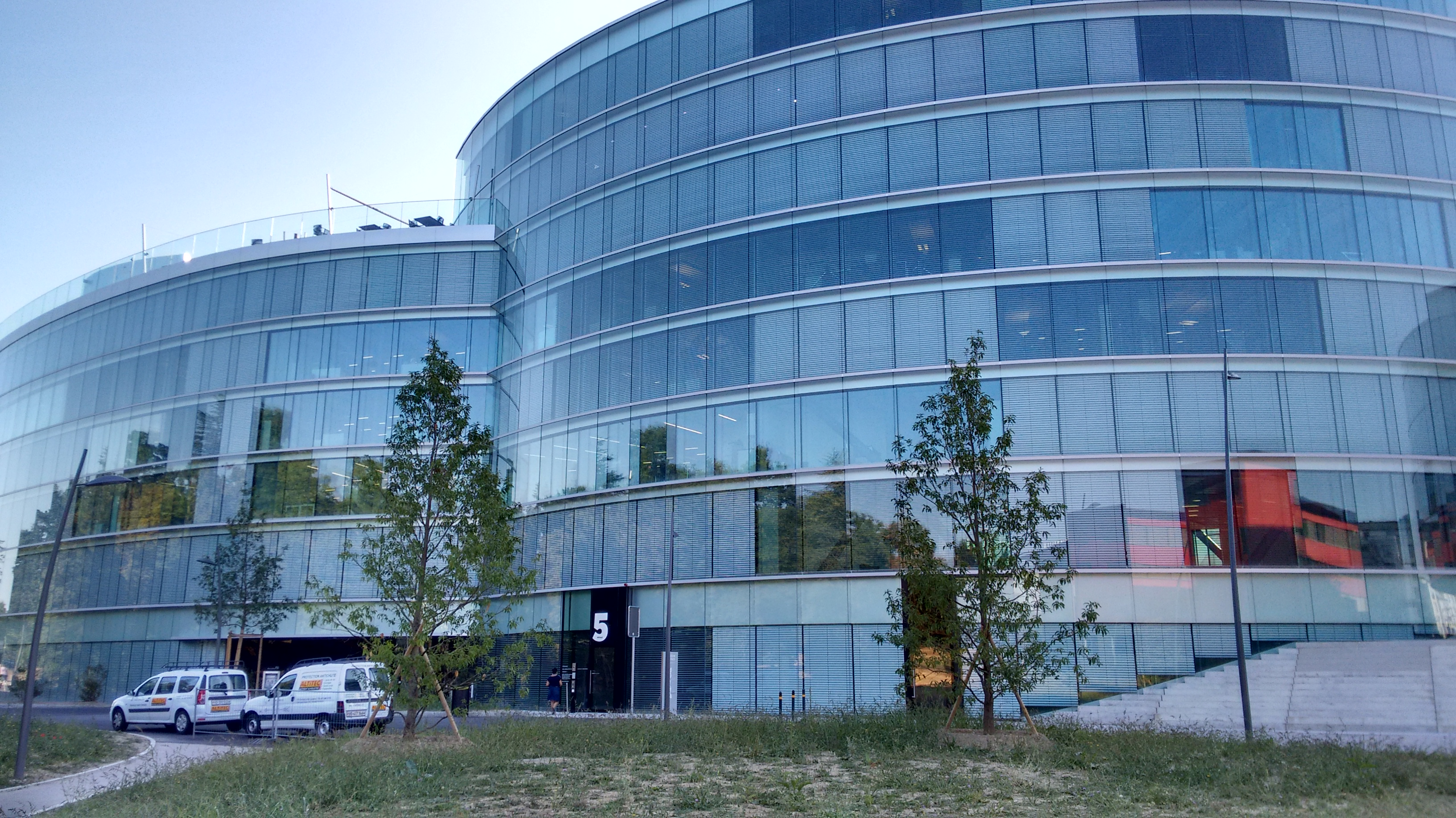 DCAF HQ entrance at Petal 5, Maison de la Paix, Geneva.